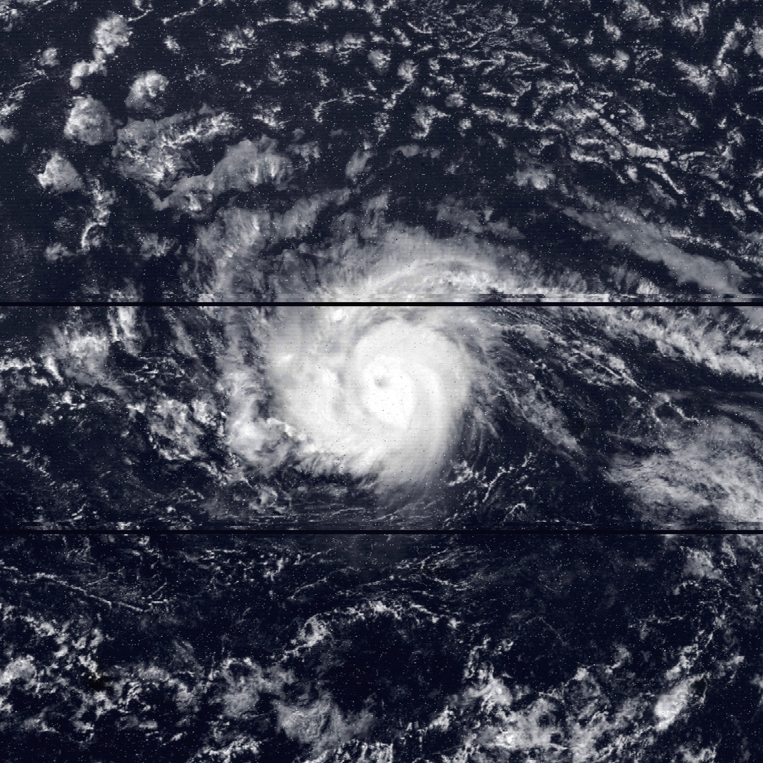 Hurricane Cora at peak intensity on August 8, 1978